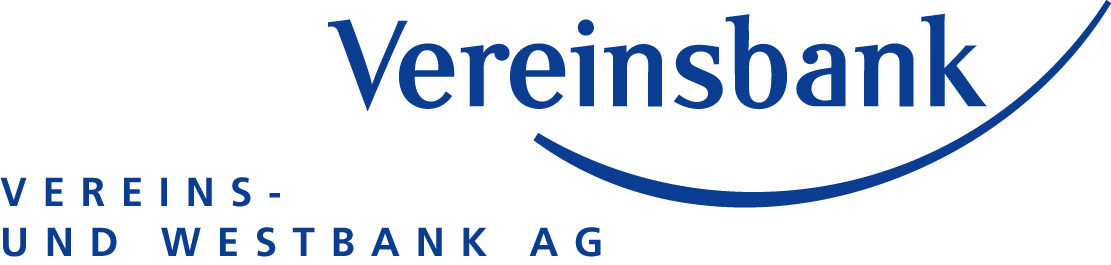 Logo of Vereins- and Westbank in its 2000 annual report.